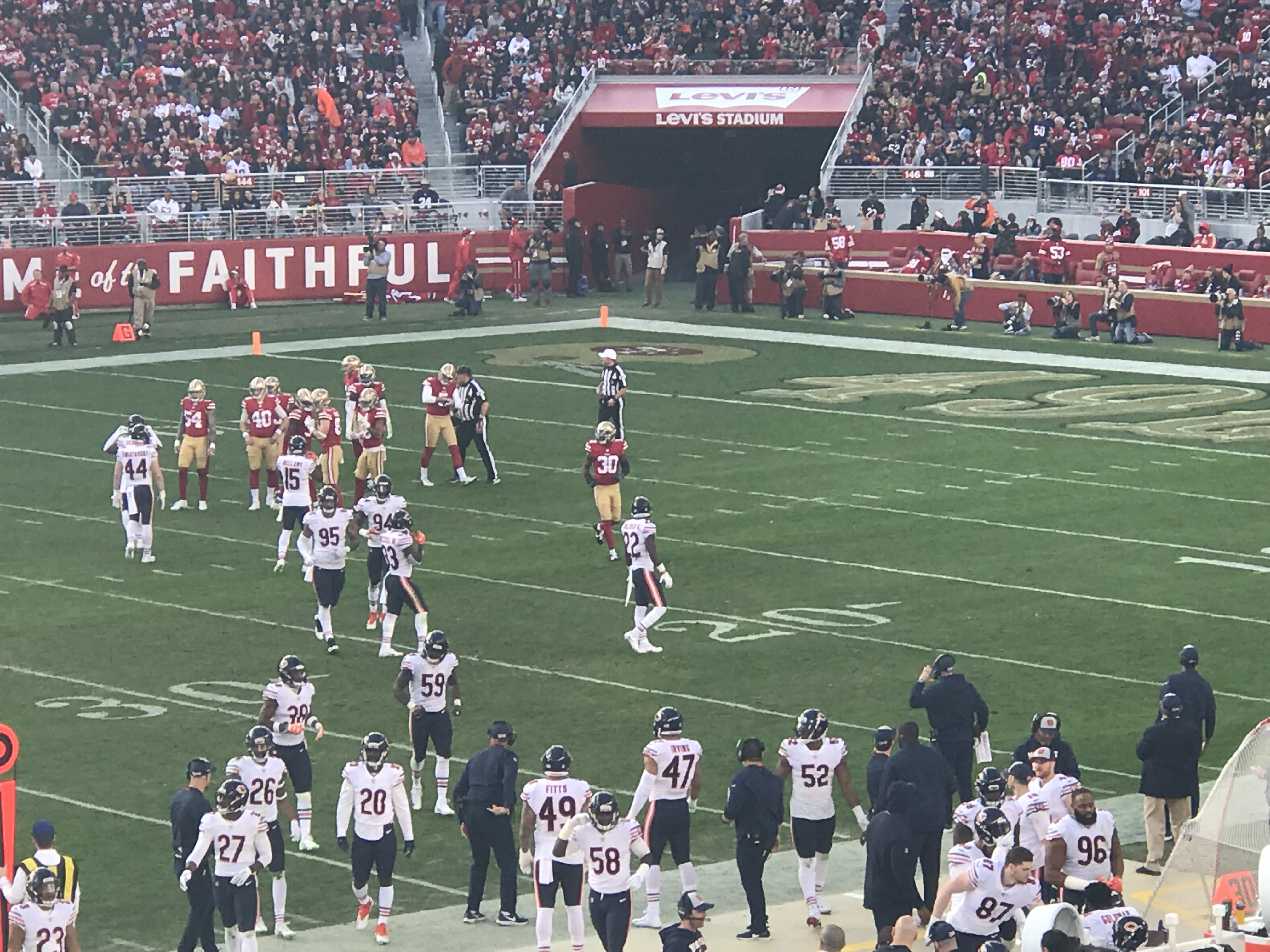 Bears vs 49ers 2018 Image 65